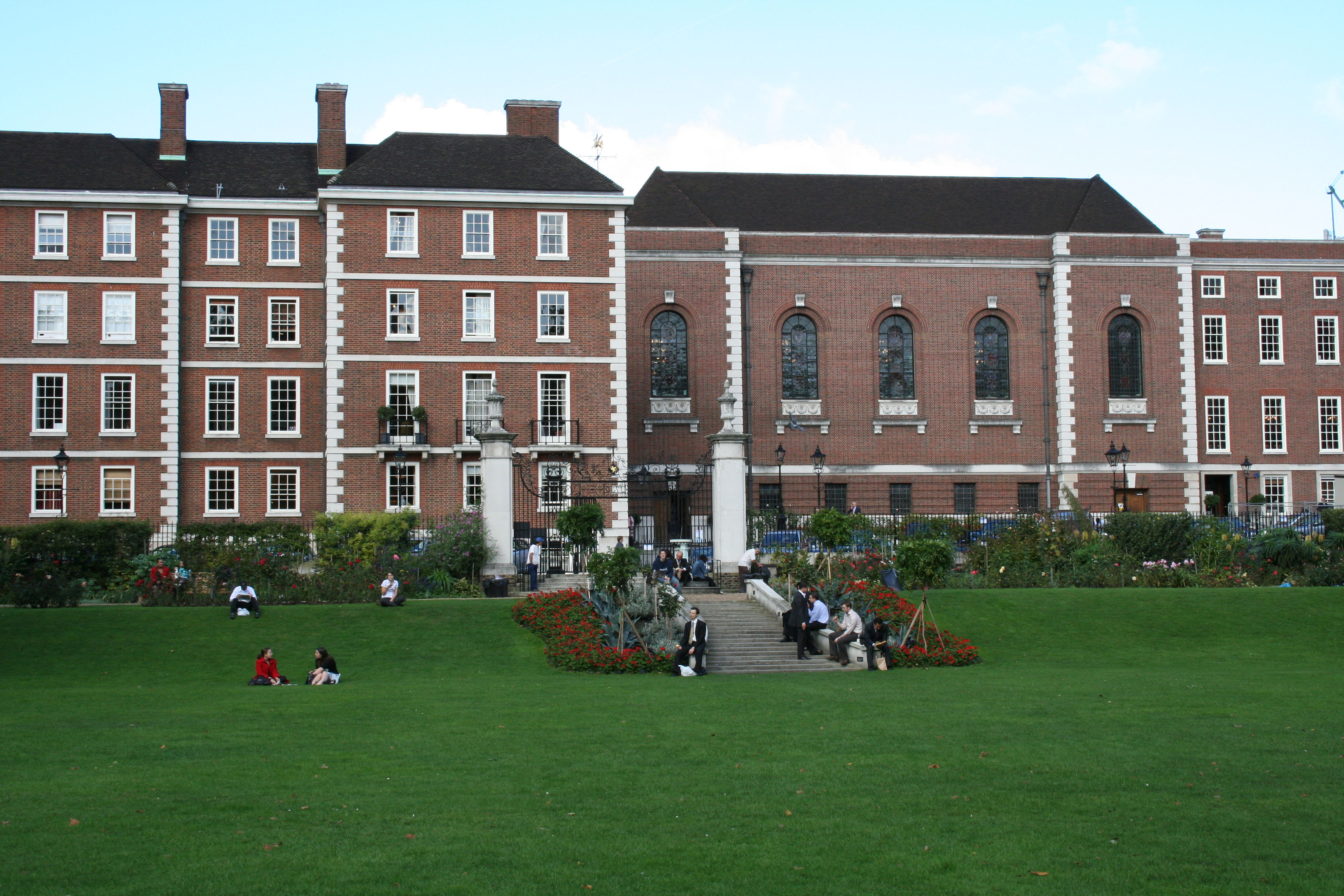 A view of Inner Temple Gardens, London